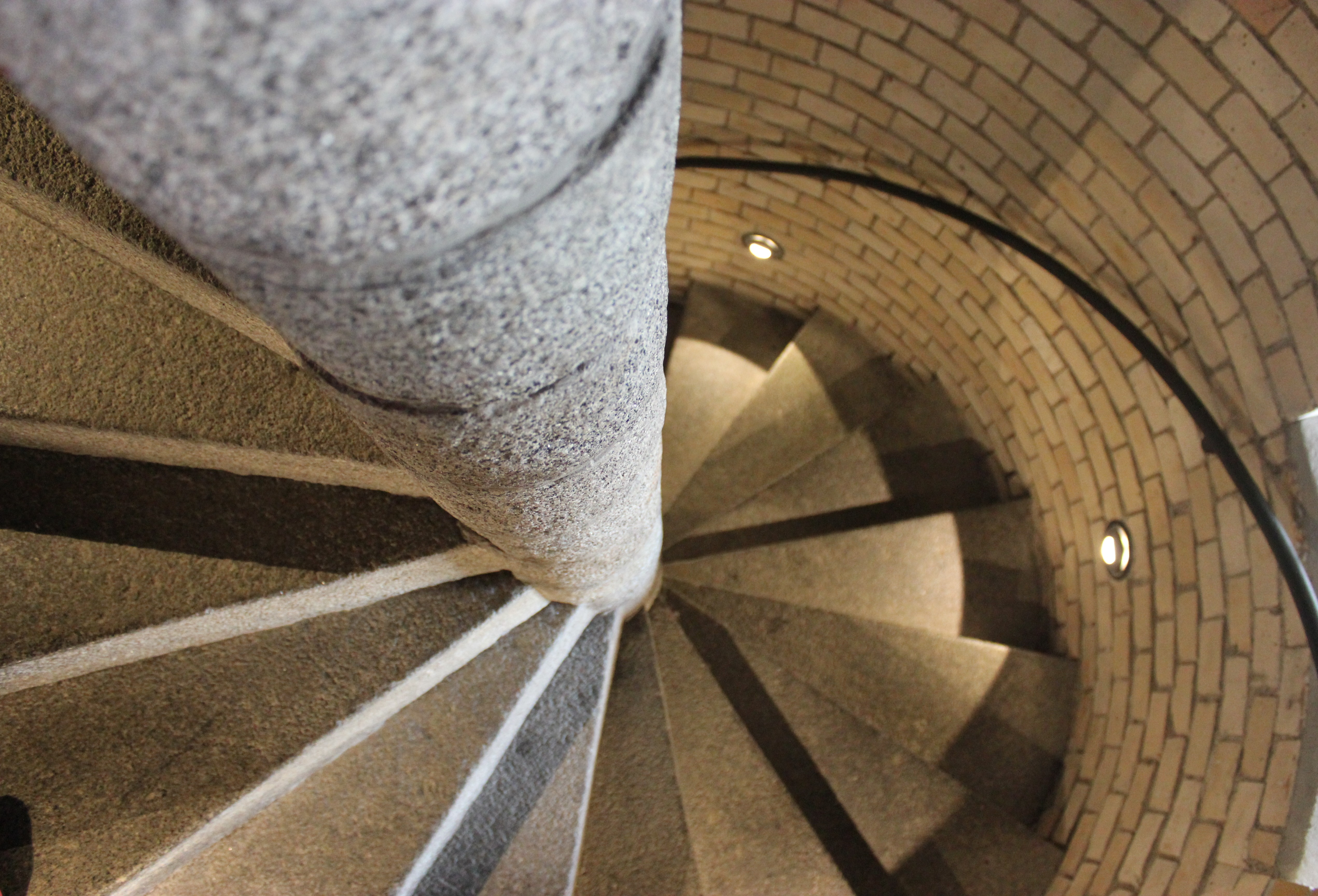 Spiral staircase of the Marktkirche Unser Lieben Frauen in Halle (Saale), Germany